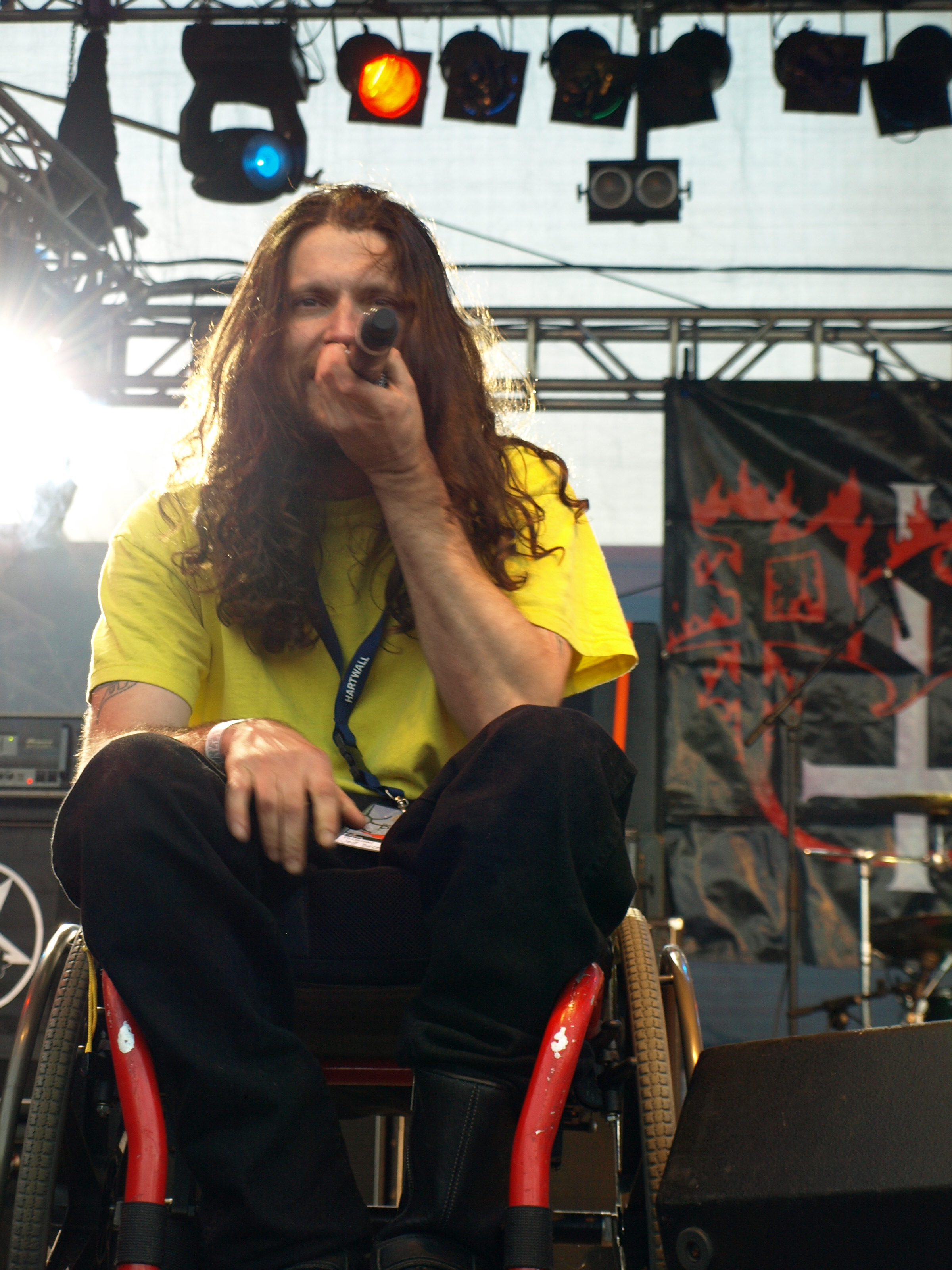 American death metal band Possessed live at Jalometalli 2008 in Oulu.